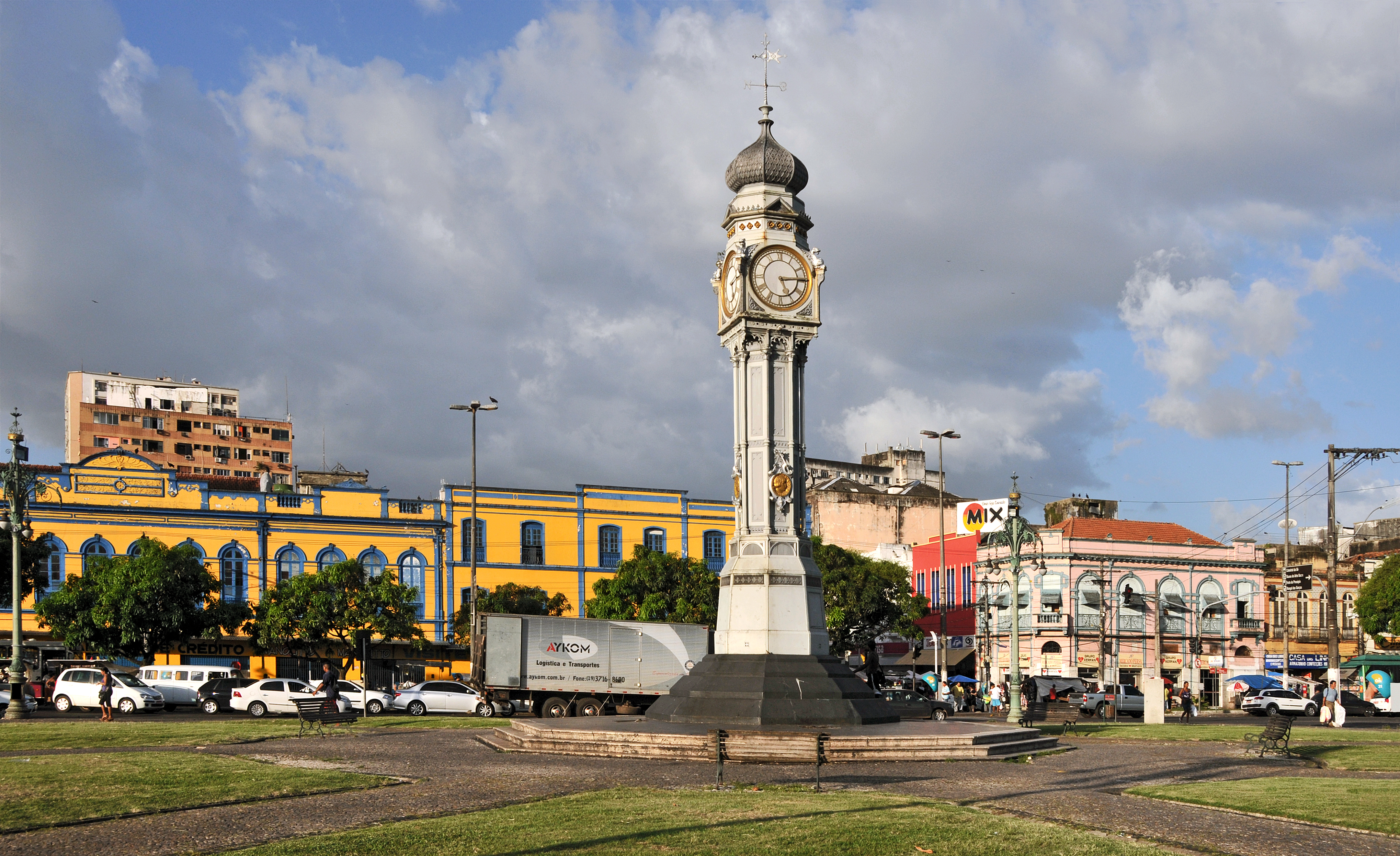 Praça do Relógio (en: Clock Place), officially praça Siqueira Campos, in Belém, Brazil. The place dates from 1930. The clocks were imported from the United Kingdom in the same year. Source: Praça do Relógio (Belém) on pt-Wiki.